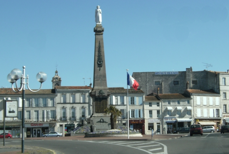 Monument aux Morts à Rochefort